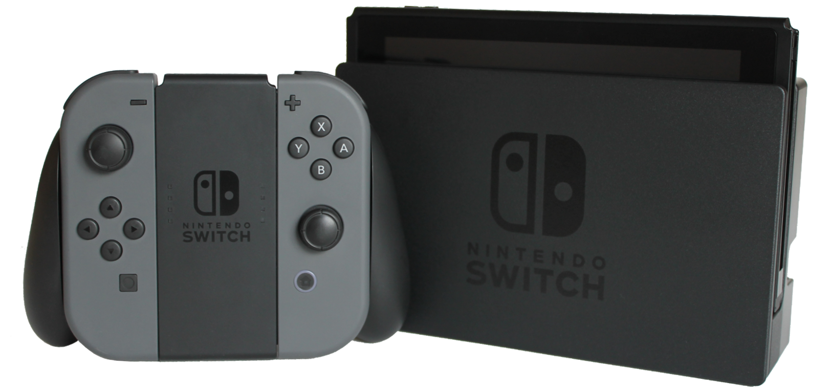 A Nintendo Switch video game console shown in docked mode and Joy-Con controllers in grip configuration.